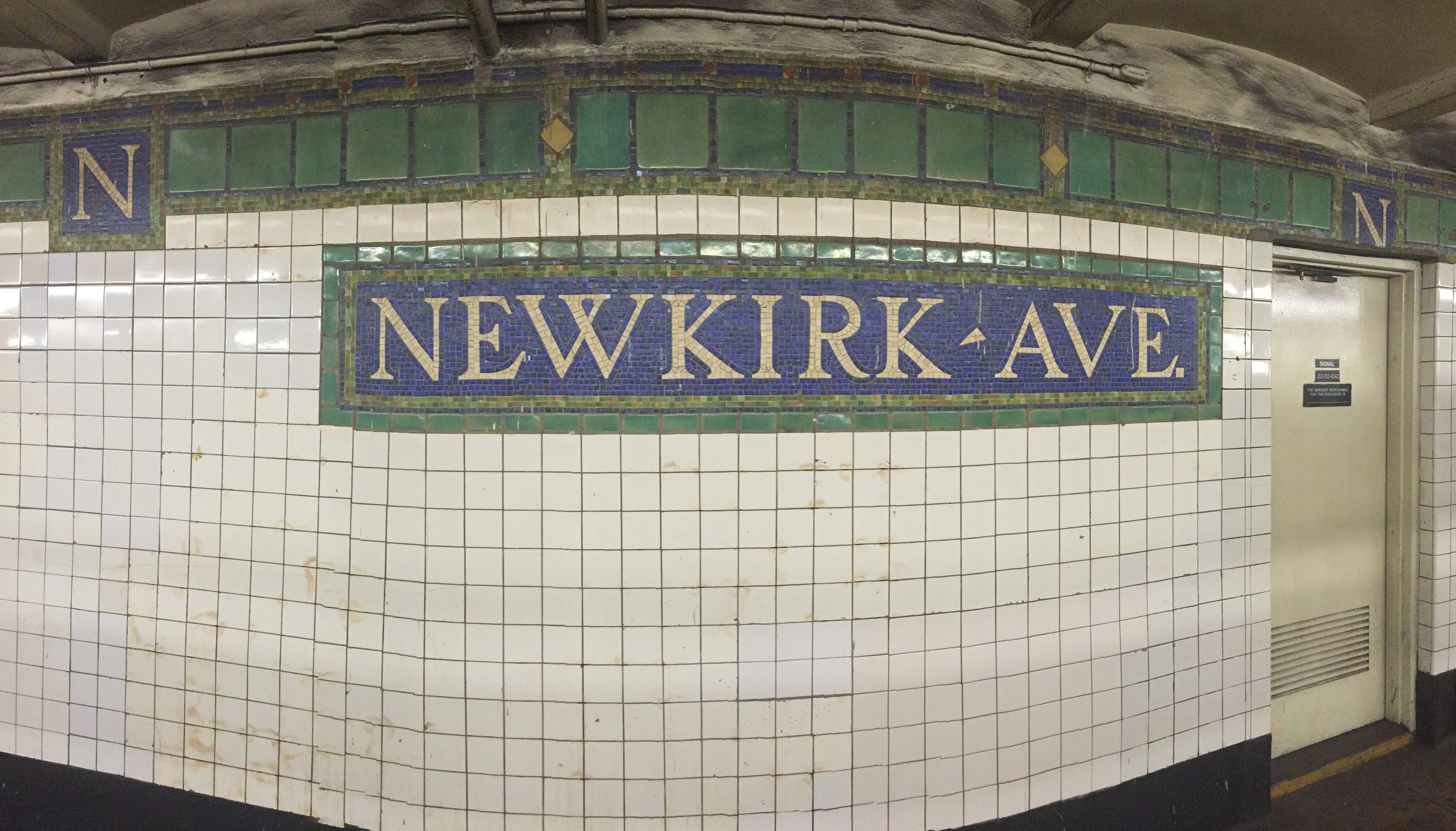 Tilework